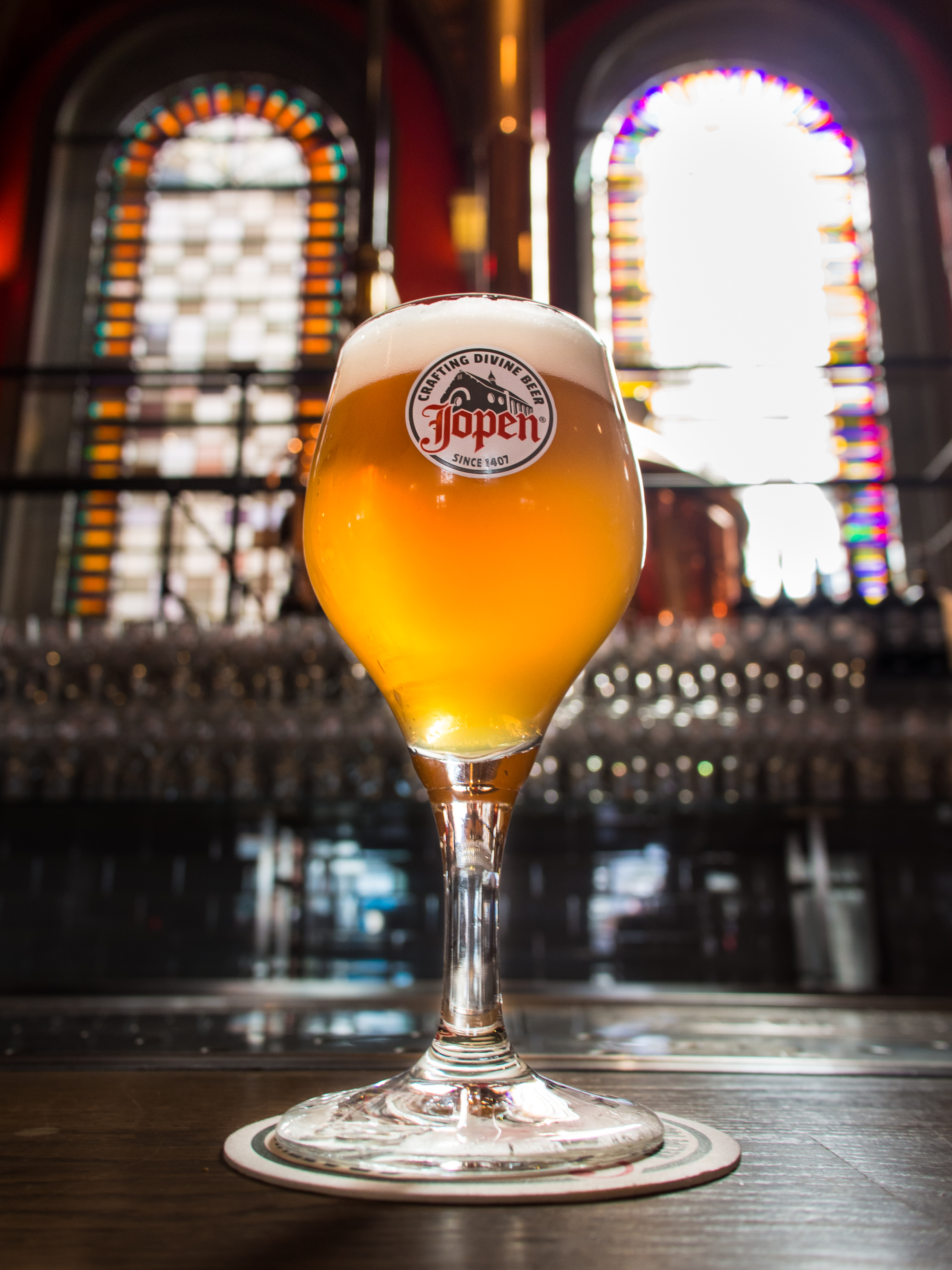 Lentebier ("Springtime beer") of Jopen Brewery served in its special glass. This photograph was made in the Jopen bar and brewery, located in the former Saint Jacob's church in the city of Haarlem. Jopen "Lentebier" is a top-cropped beer with a 7% alcohol percentage.